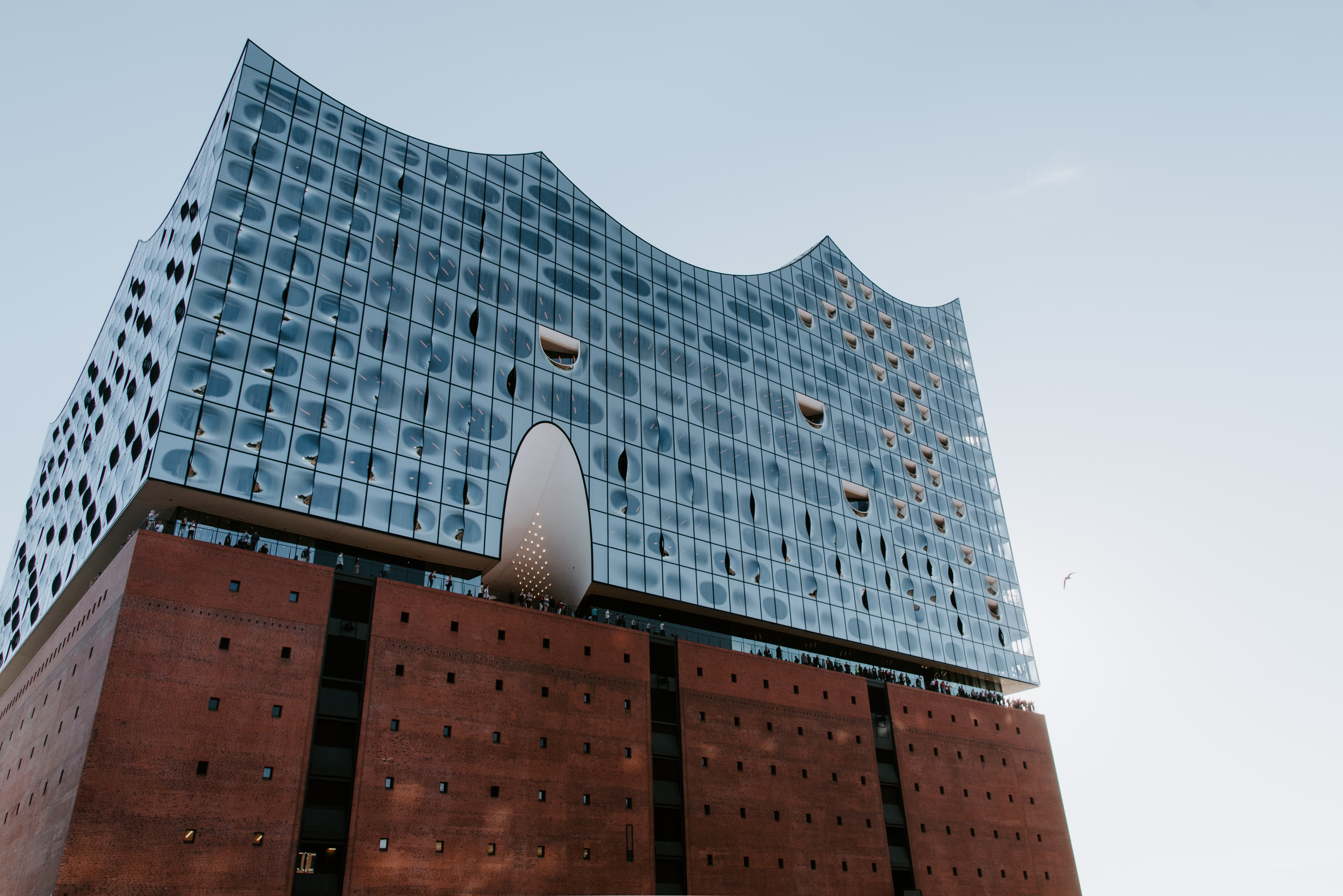 The Elbphilharmonie in Hamburg, Germany.